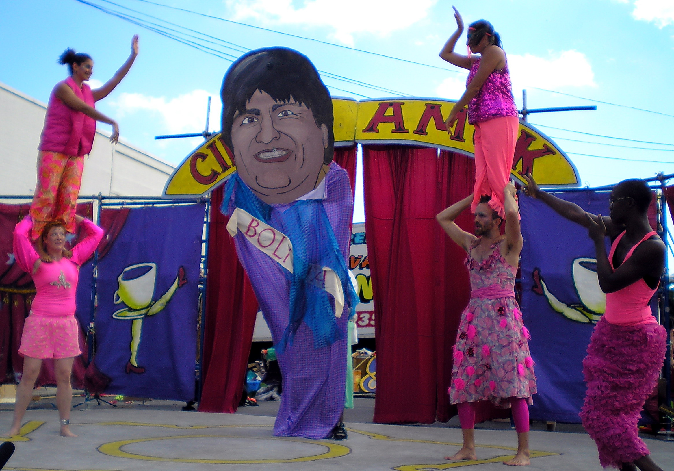 Homage to Evo Morales by Circus Amok by David Shankbone, New York City